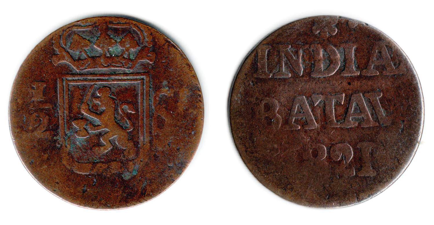 Netherlands. East Indies, Batavia. William I 1815 - 1840. Copper coin 1/2 Stuiver 1821. Crowned arms divide value / INDIAE BATAV 1821.